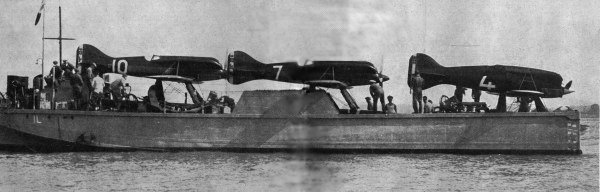 Italian racing floatplanes; Macchi M.67s at left and center, Macchi M.52R at right